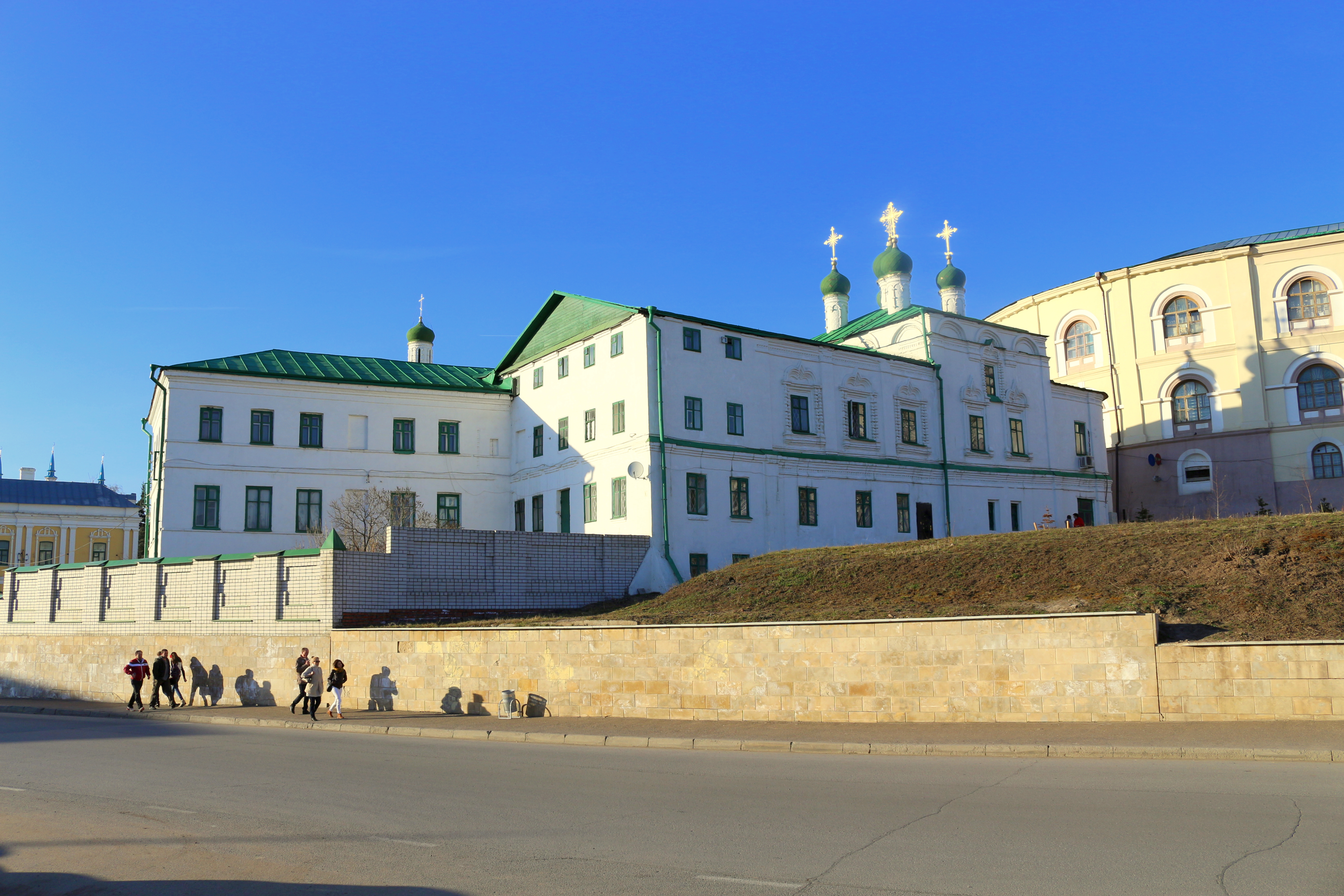 Ioano-Predteche monastery.